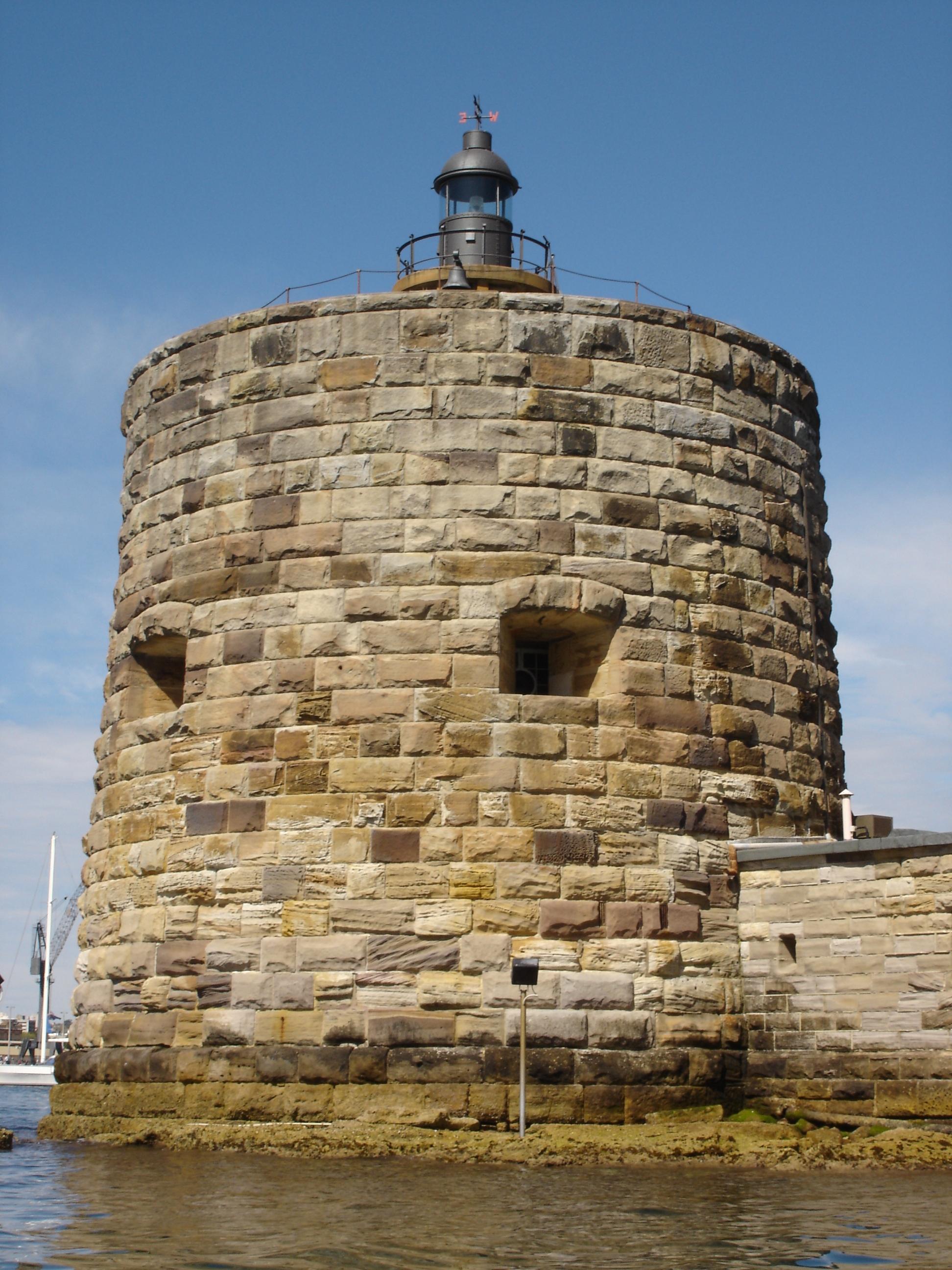 Fort Denison, Sydney Harbour, New South Wales. Picture taken 6/9/06 by user Amitch.